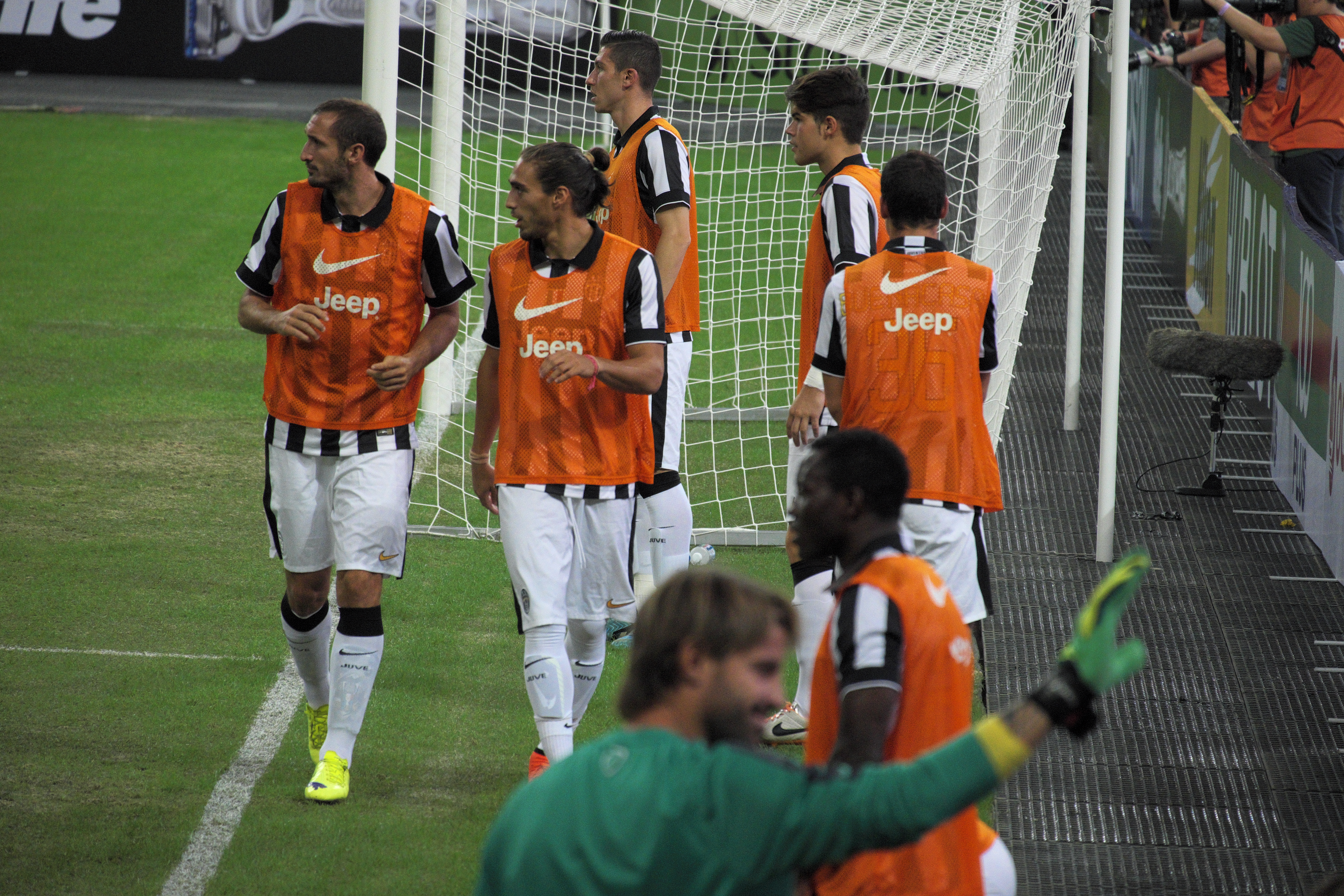 Singapore Selection vs Juventus @ National Stadium